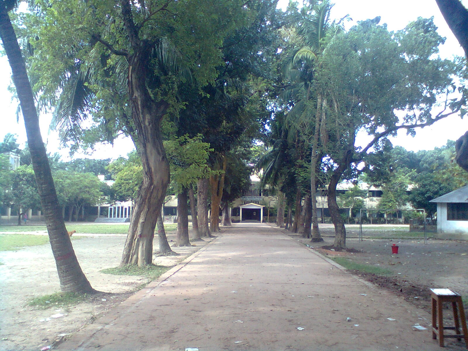 বৃক্ষশোভিত সাতক্ষীরা সরকারি উচ্চ বিদ্যালয়ের প্রাঙ্গন